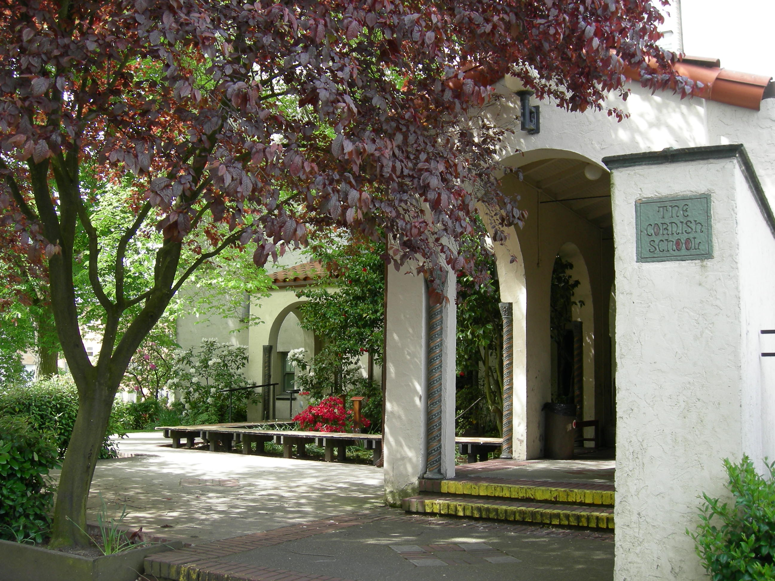 Kerry Hall, the last remaining Capitol Hill building of Cornish College, Seattle, Washington. This was the original Cornish School building and is listed on the National Register of Historic Places, as is the Harvard Belmont Landmark District in which it is located.